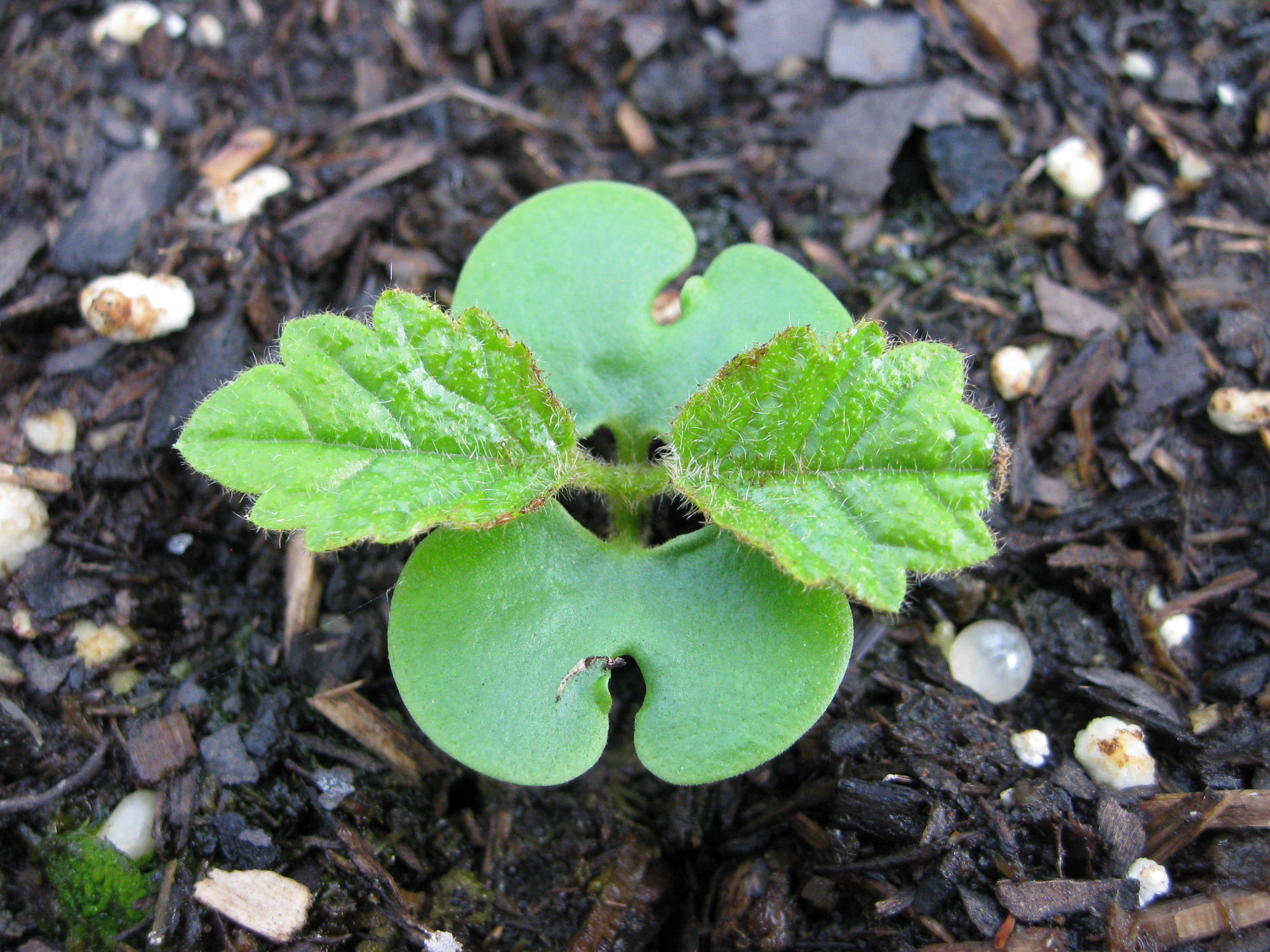 Tabebuia sprout with second set of leaf growth